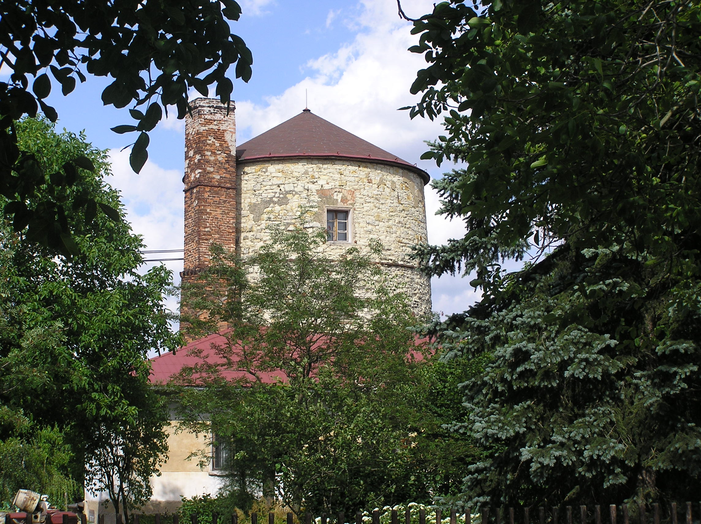 Windmill in Donín (Toužetín)